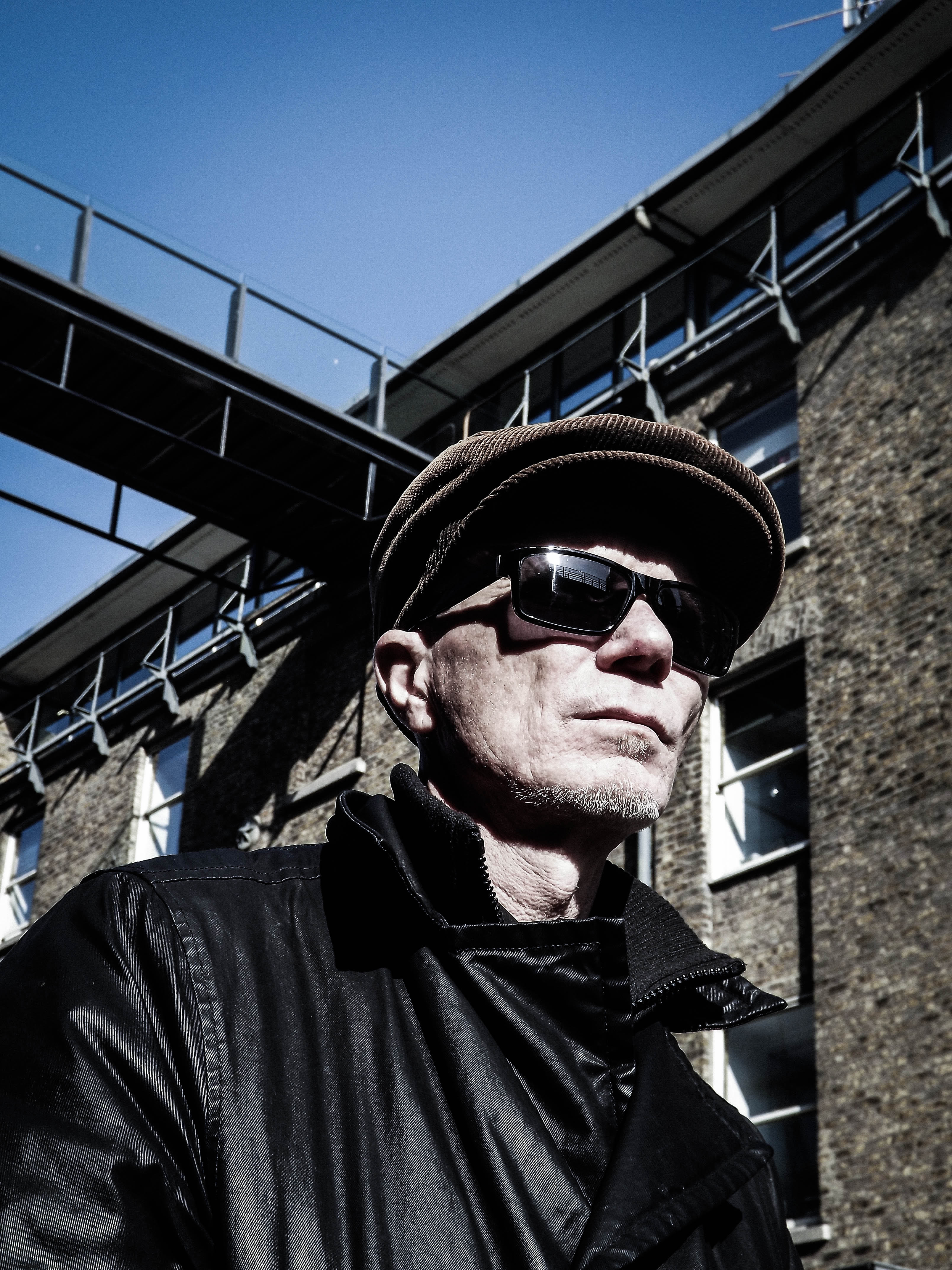 Photo of David Virgin taken at Grand Canal Dock, Dublin, March 2014